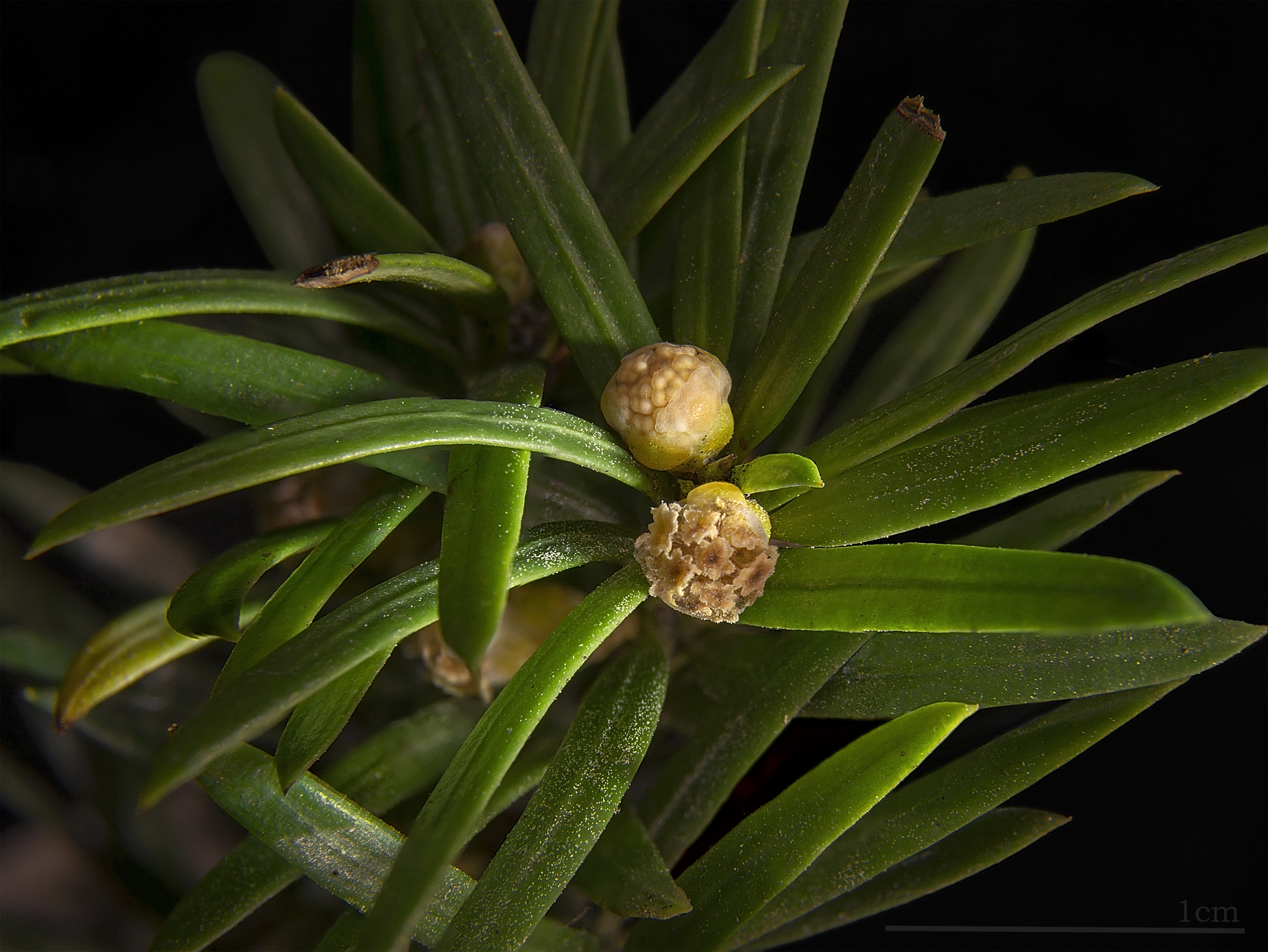 European yew flowers of male plants that produce a yellow pollen in spring.